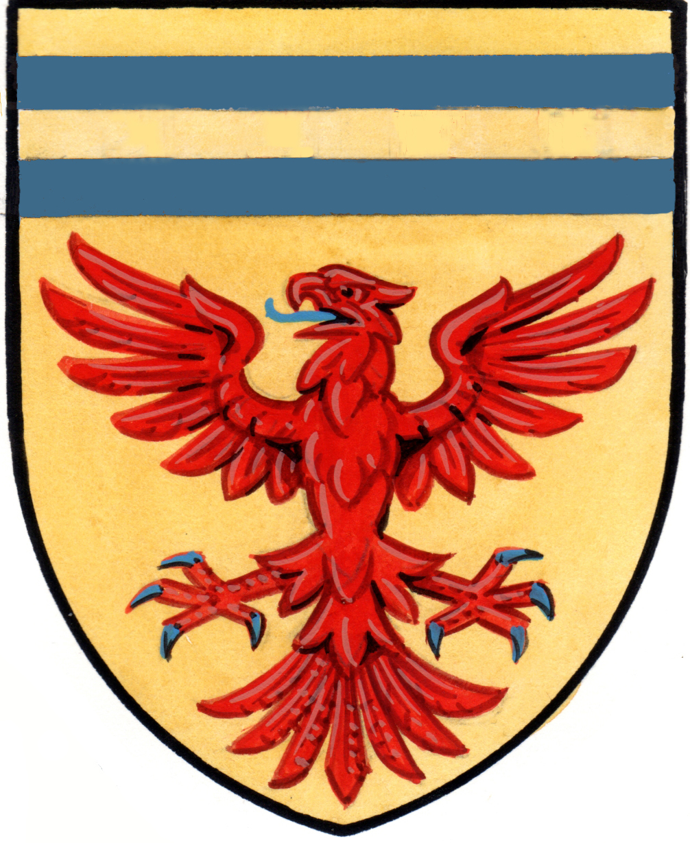 Coat of arms of the Cussans family